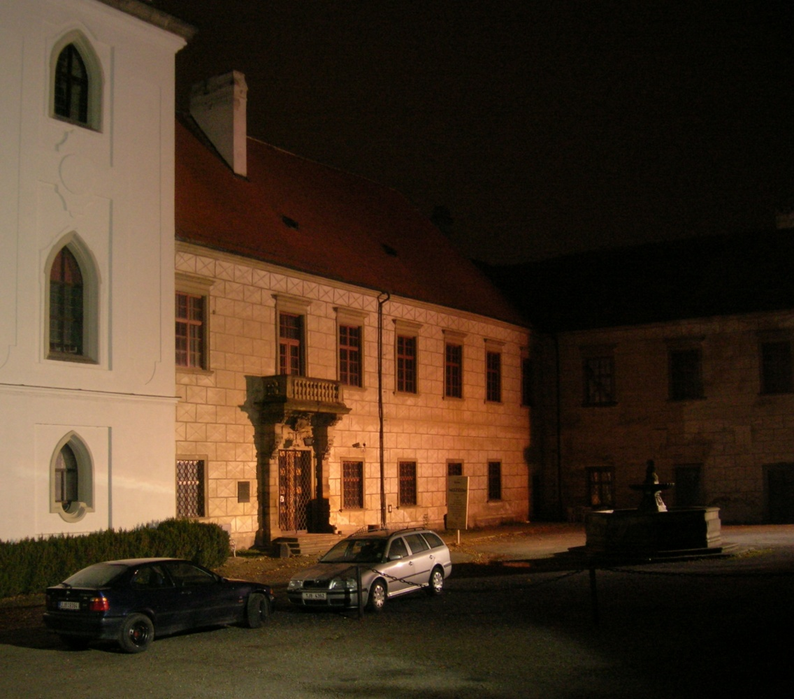 Třebíč-Podklášteří. Castle court.